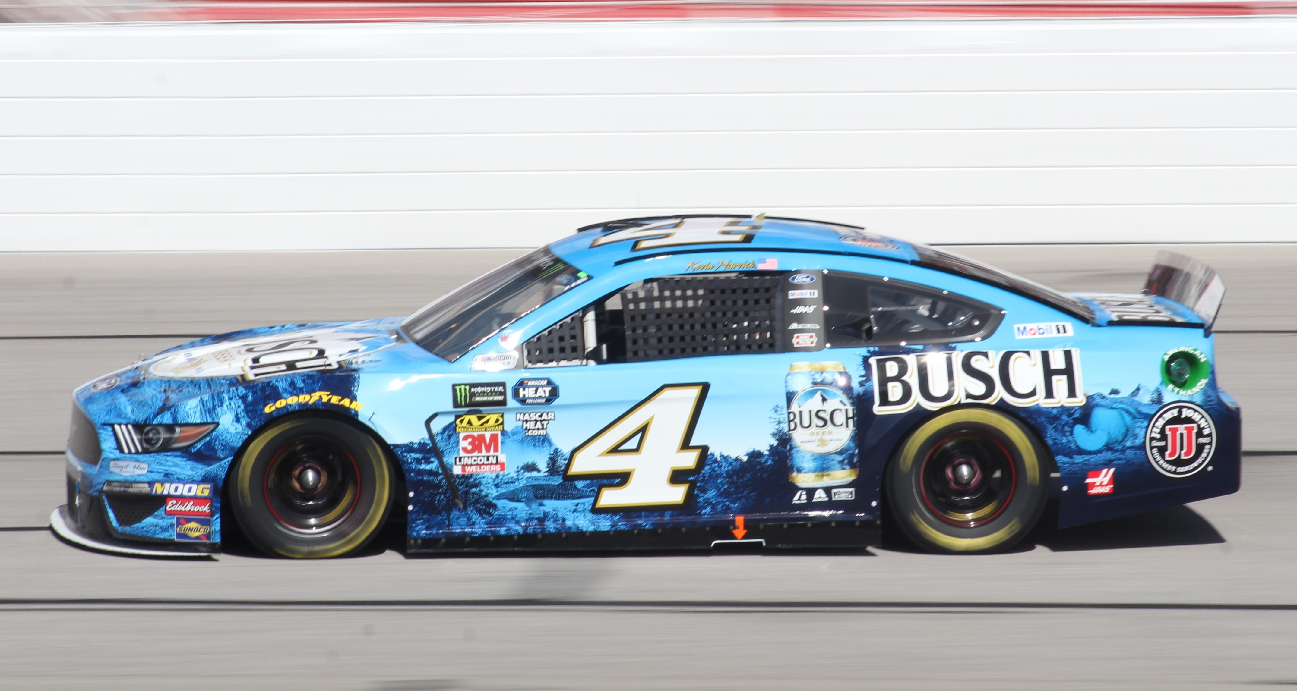 2019 Folds of Honor QuikTrip 500